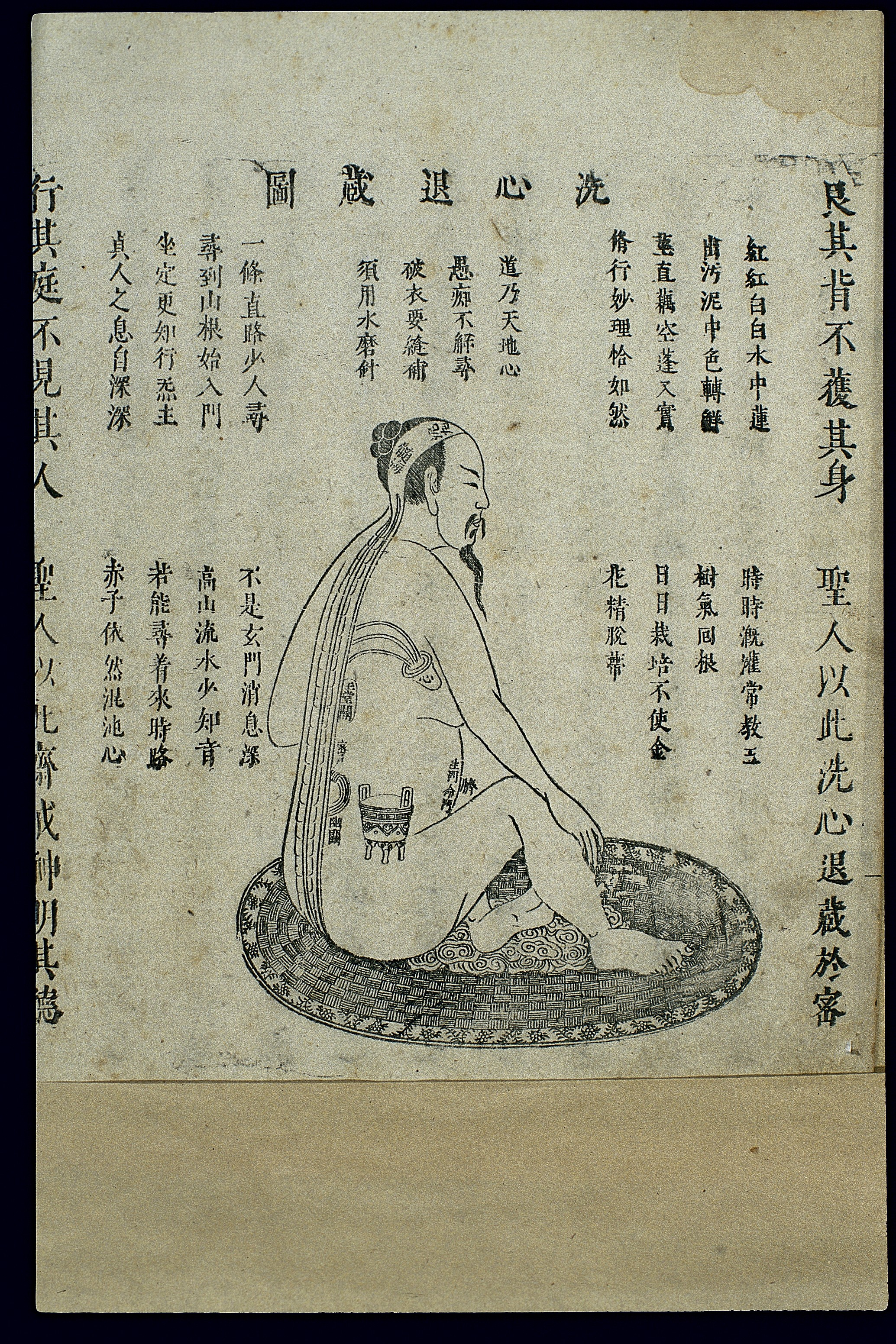 Woodcut illustration of the practice calledXixin tuicang(wash the heart and retire to a hidden place)fromXingming guizhi(Pointers on Spiritual Nature and Bodily Life) by Yi Zhenren, a Daoist text on internal alchemy published in 1615 (3rd year of the Wanli reign period of Ming dynasty). Xixin tuicang(wash the heart and retire to a hidden place), orXixin dilü(wash the heart and cleanse the thoughts), belongs to the terminology of internal alchemy. Beginning alchemists, inexperienced in the regulation and timing of spiritual fire, are subject to illnesses of distress and agitation, fire and inflammation. This can be rectified by practisingXixin tuicang.Xingming guizhi, 'Retirement and Cleansing Practices' states: 'Novice practitioners abase their heart and bind it up too tightly, which inevitably leads to illnesses of distress and agitation, fire and inflammation. The heart-fire of the south is temporarily concealed in the back-water of the north; water and fire nurture each other, and naturally no thoughts and worries arise'. Wellcome Images Keywords: Daoism; Medicine, Chinese Traditional; Internal alchemy; Qigong